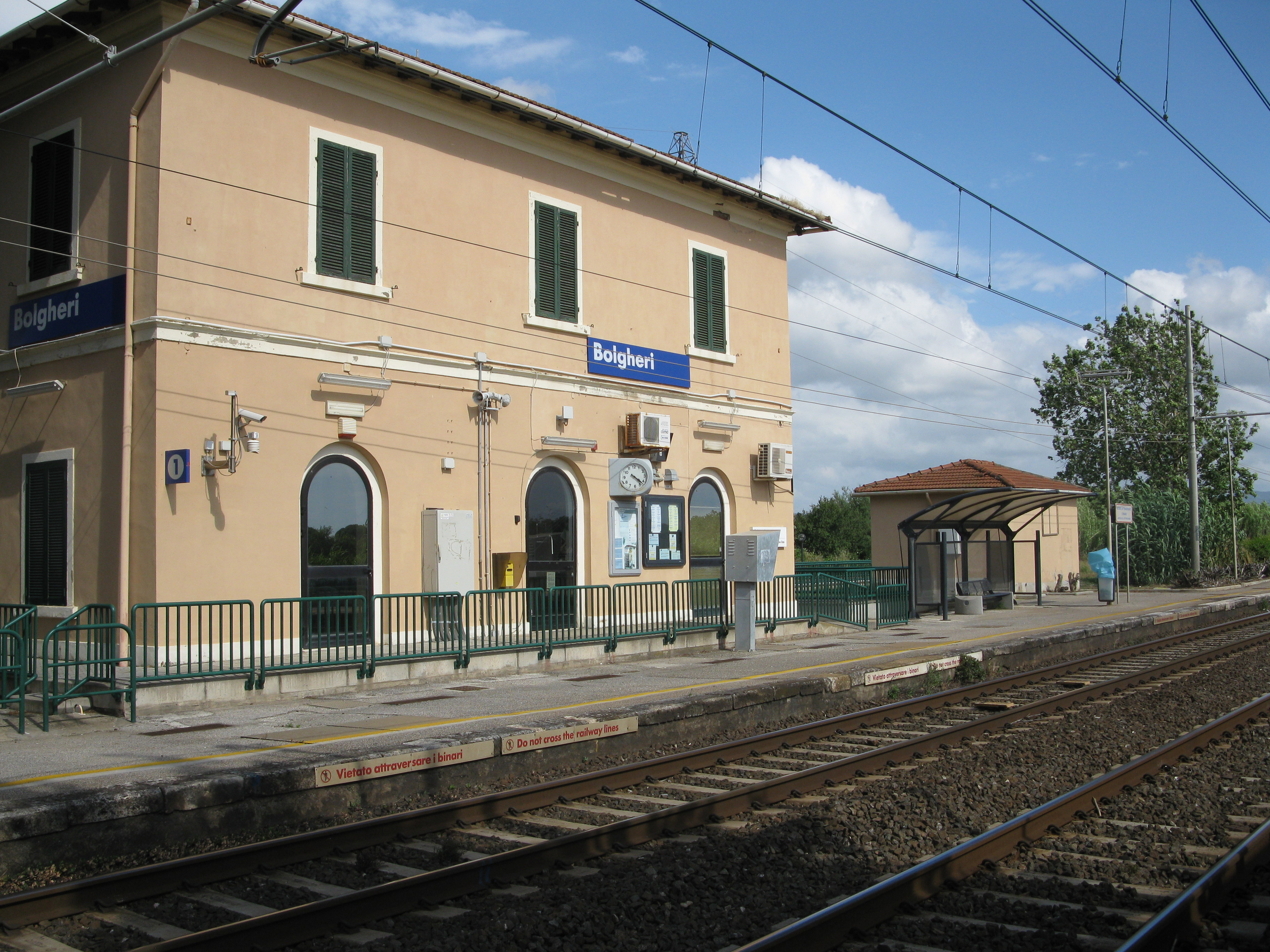 Bolgheri train station, station building